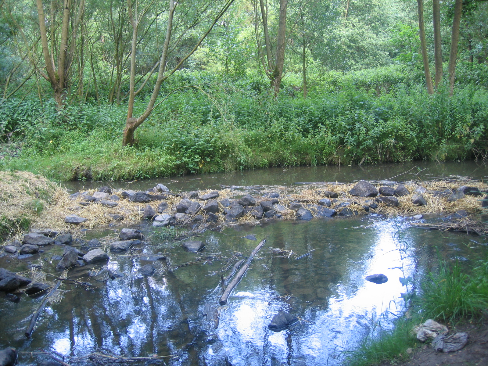 River near Bustedt Castle in Hiddenhausen, District of Herford, North Rhine-Westphalia, Germany.